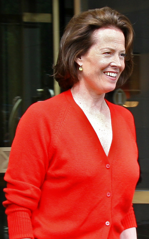 Sigourney Weaver at the 2007 Toronto International Film Festival